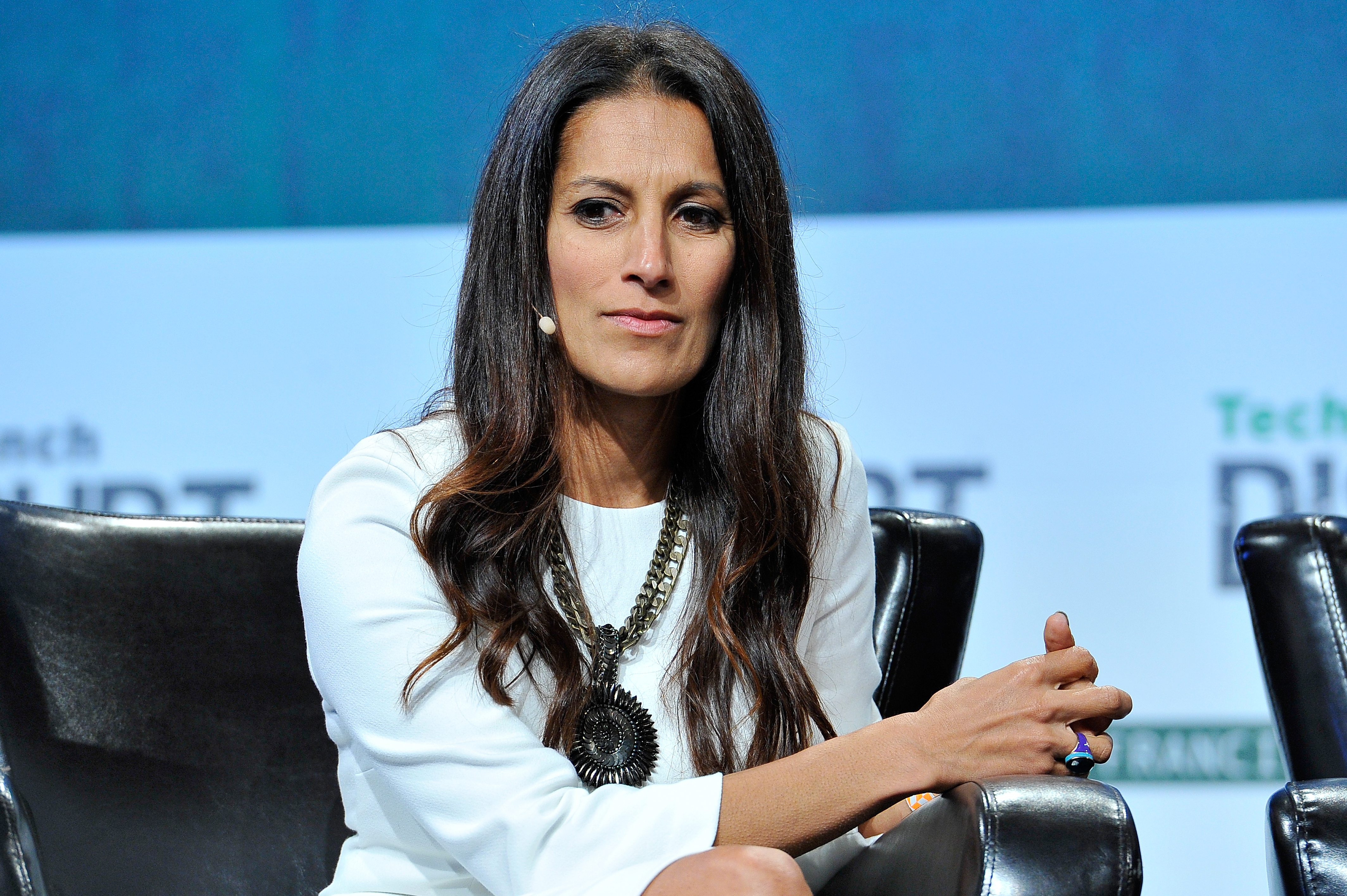 SAN FRANCISCO, CA - SEPTEMBER 23: Sukhinder Singh Cassidy of Joyus speaks onstage during TechCrunch Disrupt SF 2015 at Pier 70 on September 23, 2015 in San Francisco, California. (Photo by Steve Jennings/Getty Images for TechCrunch)